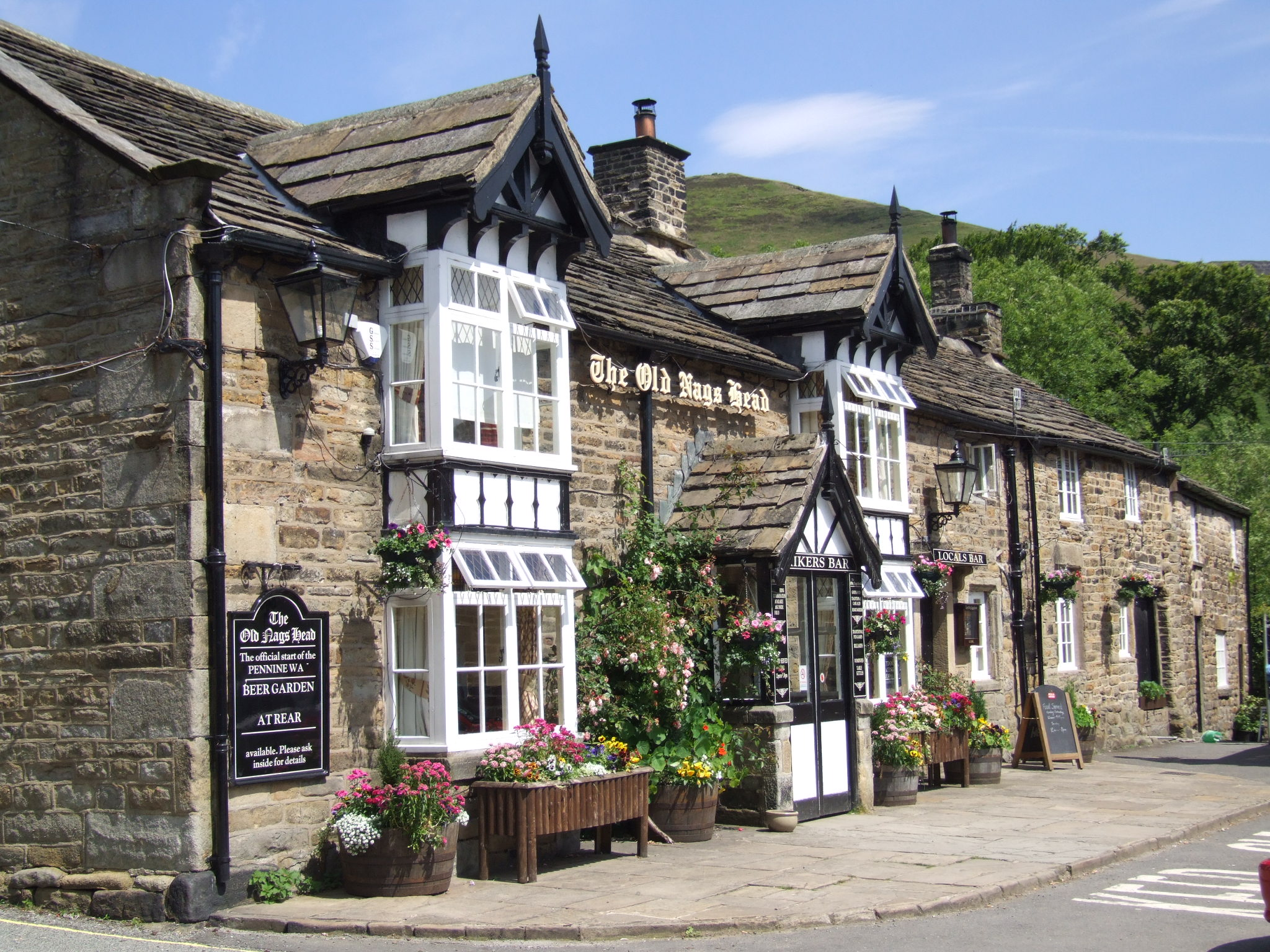 Edale is a small Derbyshire village and Civil parish in the Peak District of England. The Parish of Edale, area 2,844.8ha is in the Borough of High Peak. The Nags Head Pub, the start of the Pennine Way.